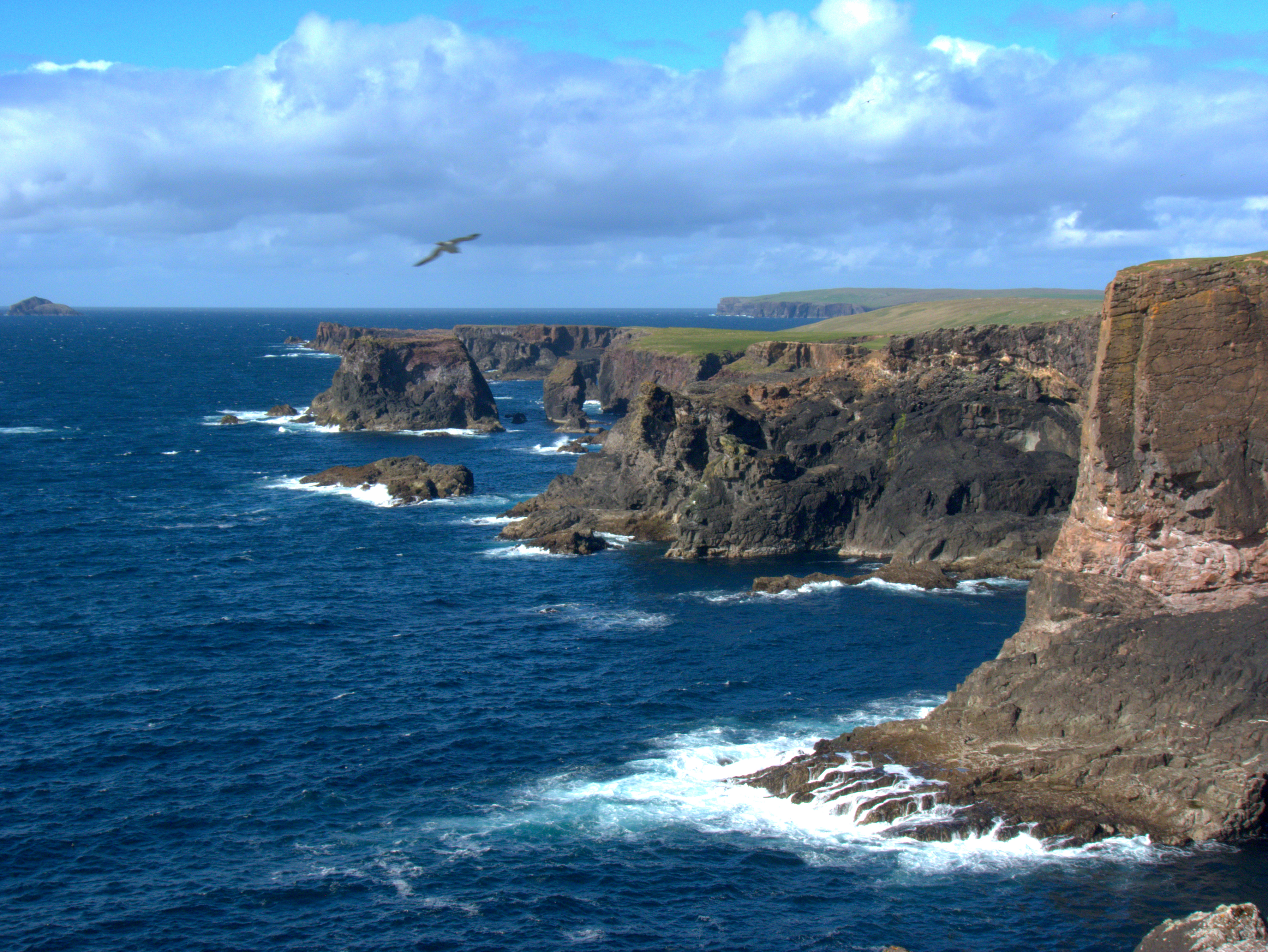 View from the spectacular Eshaness Cliffs. The wind was quite strong, so I kept well away from the edge. Was a challenge keeping still. Thank goodness for Image Stabilisation!